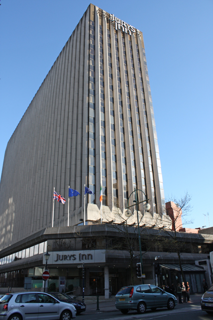 Jurys Inn, Broad Street A hotel at the junction of Berkley Street with Broad Street.